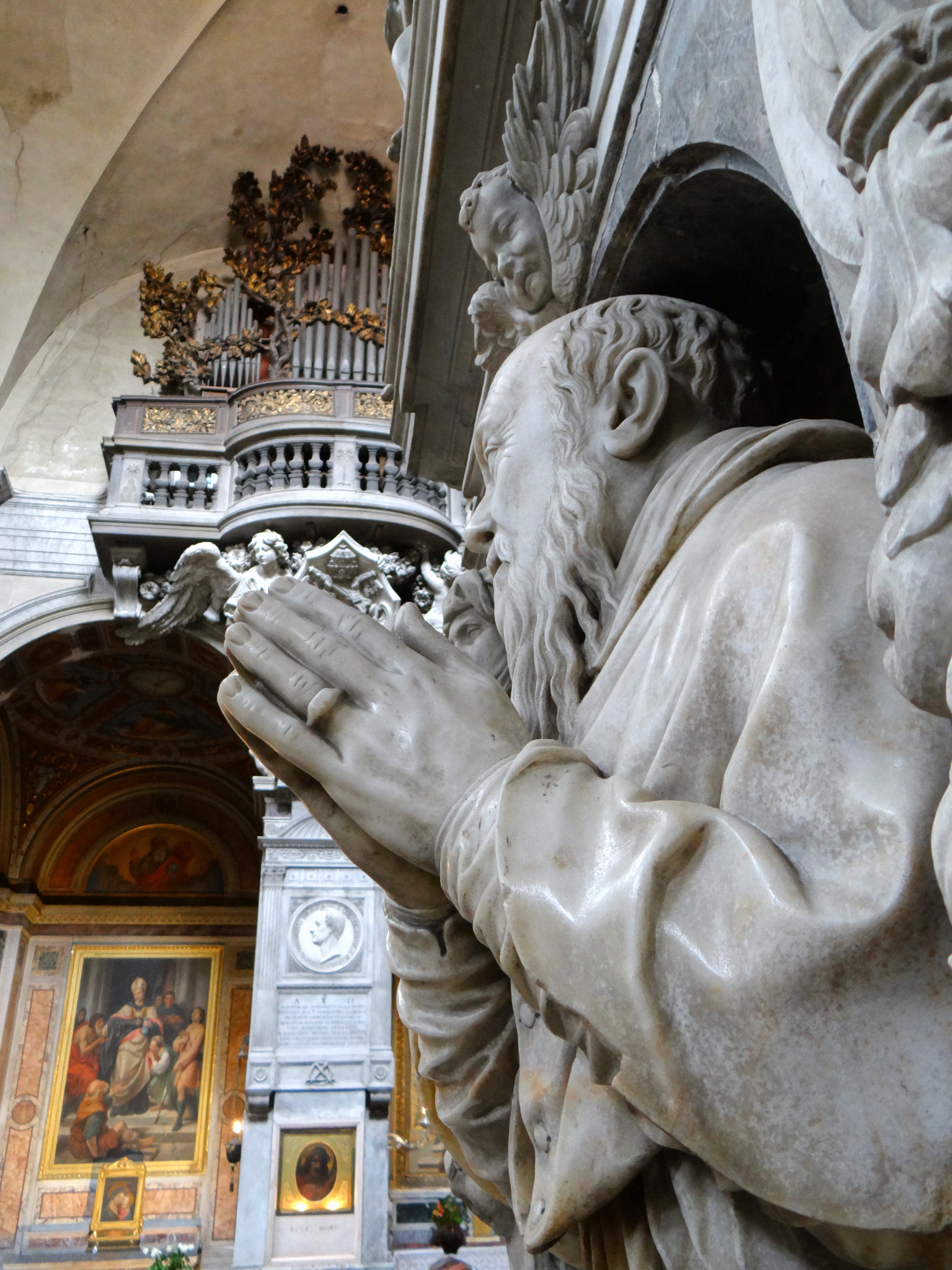 The bust of Cardinal Gian Girolamo Albani on his tomb in Santa Maria del Popolo, Rome. Work by Giovanni Antonio Paracca (after 1591).